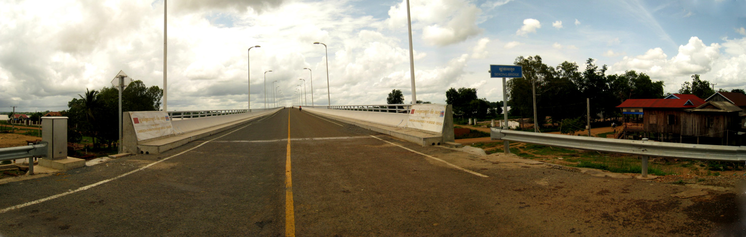 most of the asphalt roads in cambodia are built by the chinese. they're less bumpy than the dirtroads.